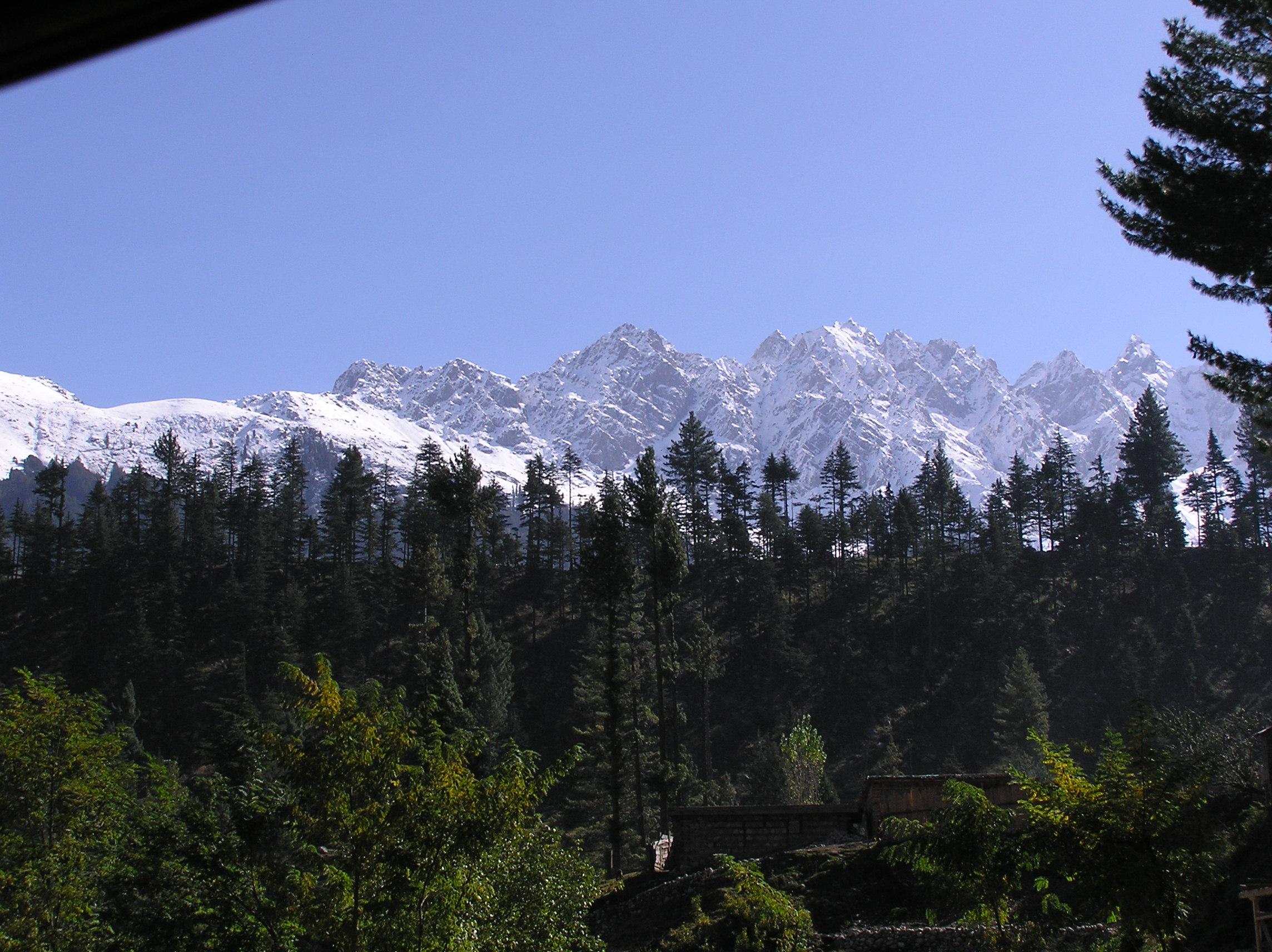 Mountain view from Kalam, Swat District, Khyber Pakhtunkhwa, Pakistan